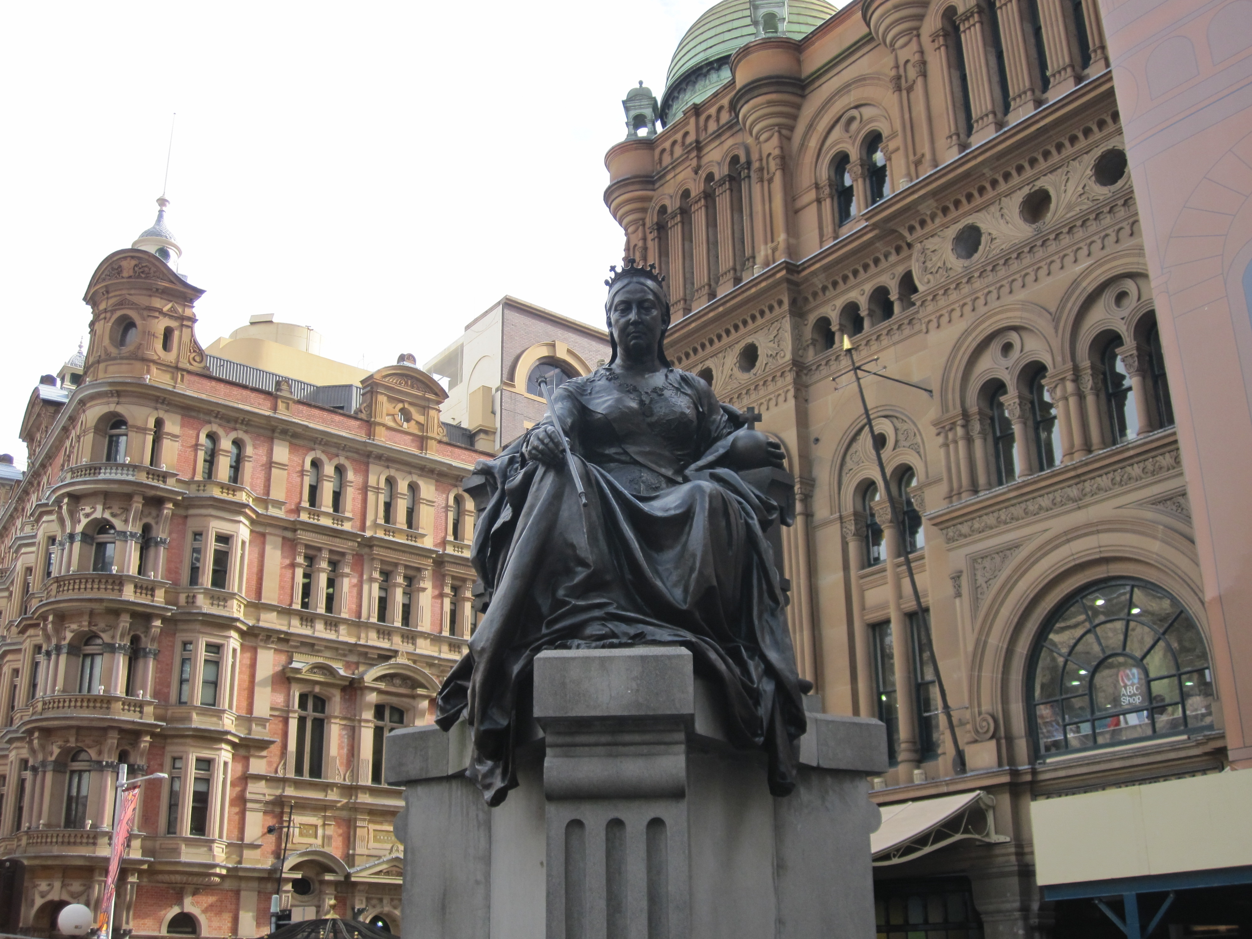 Queen Victoria outside the Queen Victoria Building in Sydney 2011